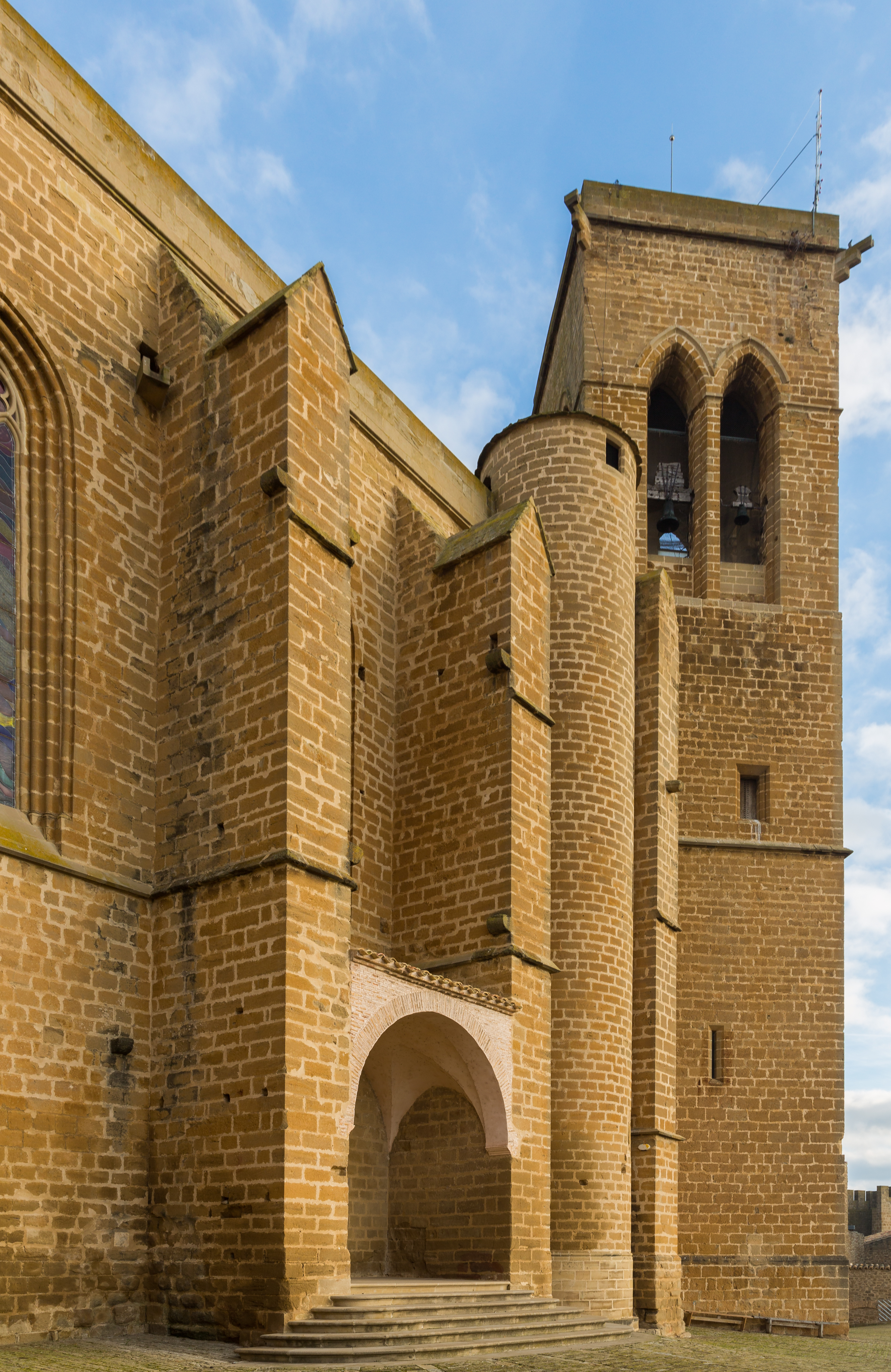 Fortified church of San Saturio, Cerco de Artajona, Navarre, Spain